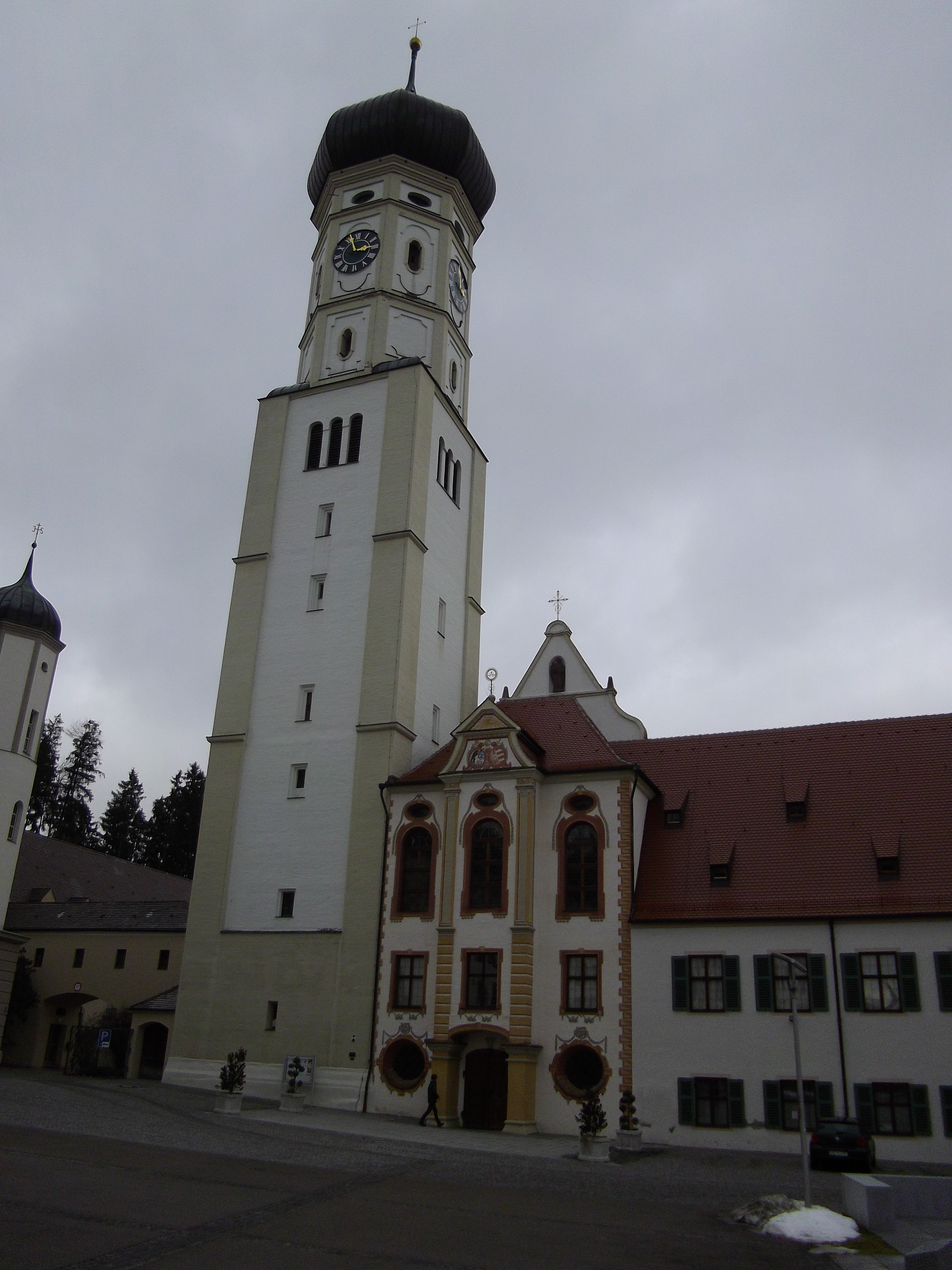 church of ursberg